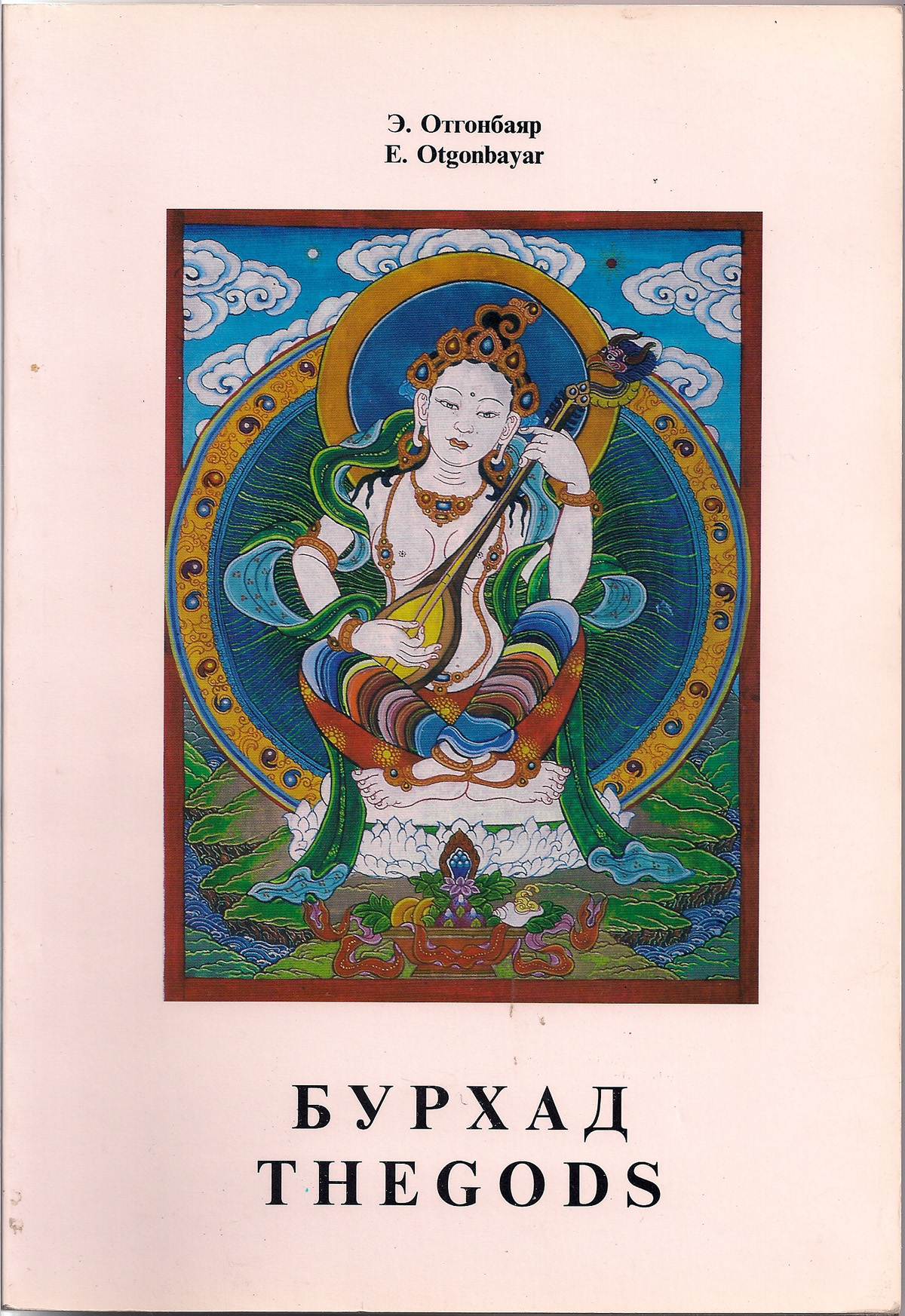 Otonbayar Ershuu "THE GODS"